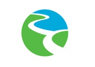 Flag of Kotoura Tottori